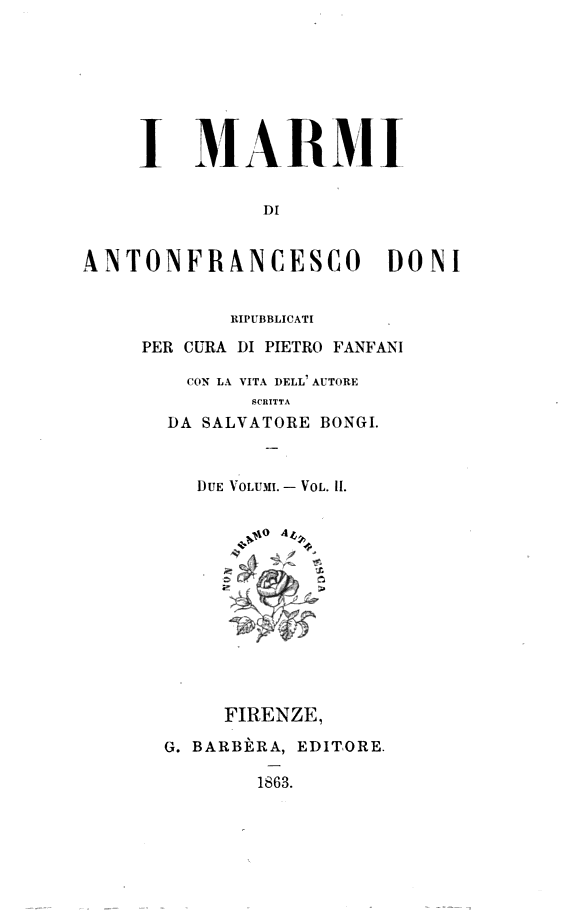 front page